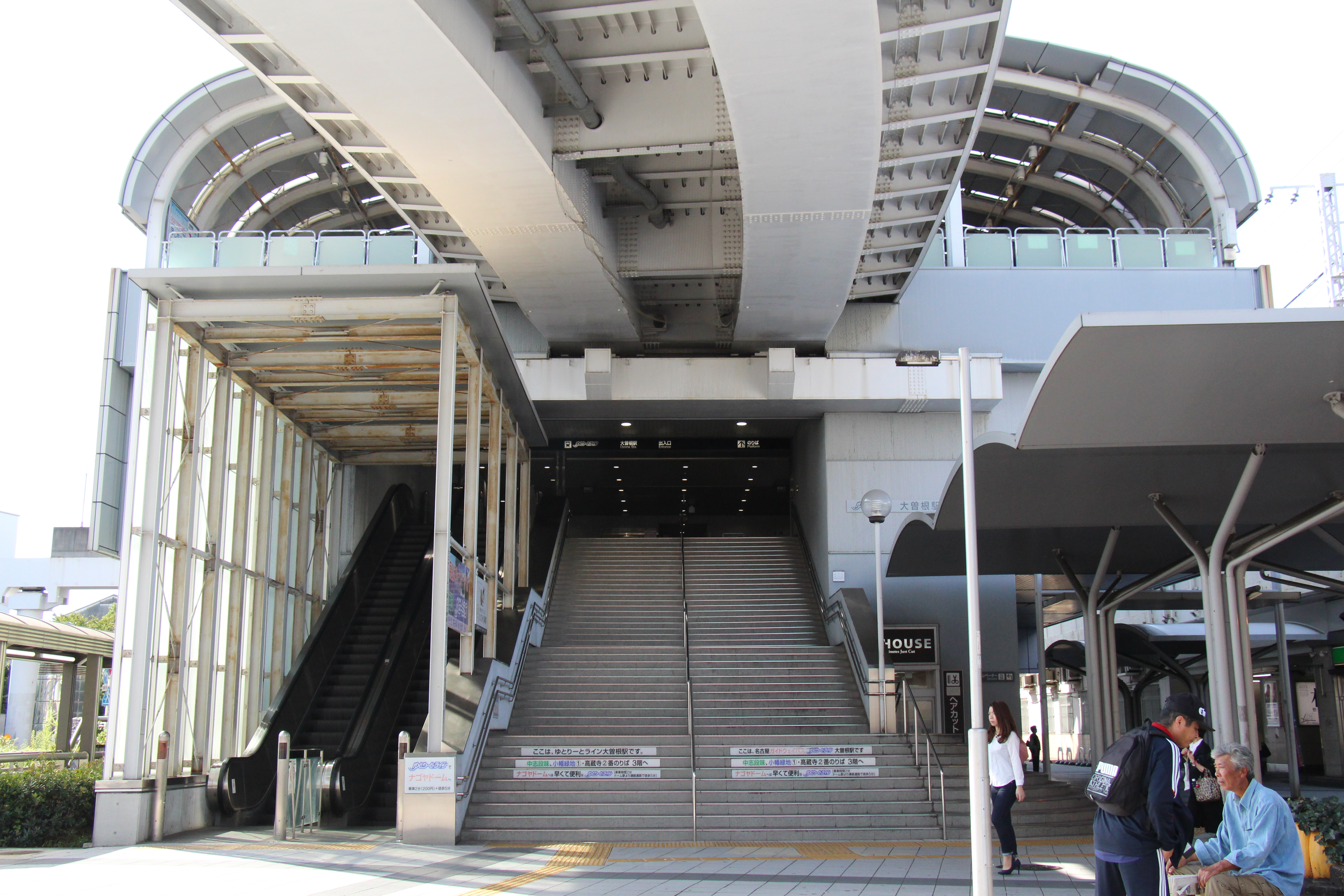 Yutorīto Line Ōzone Station Entrance